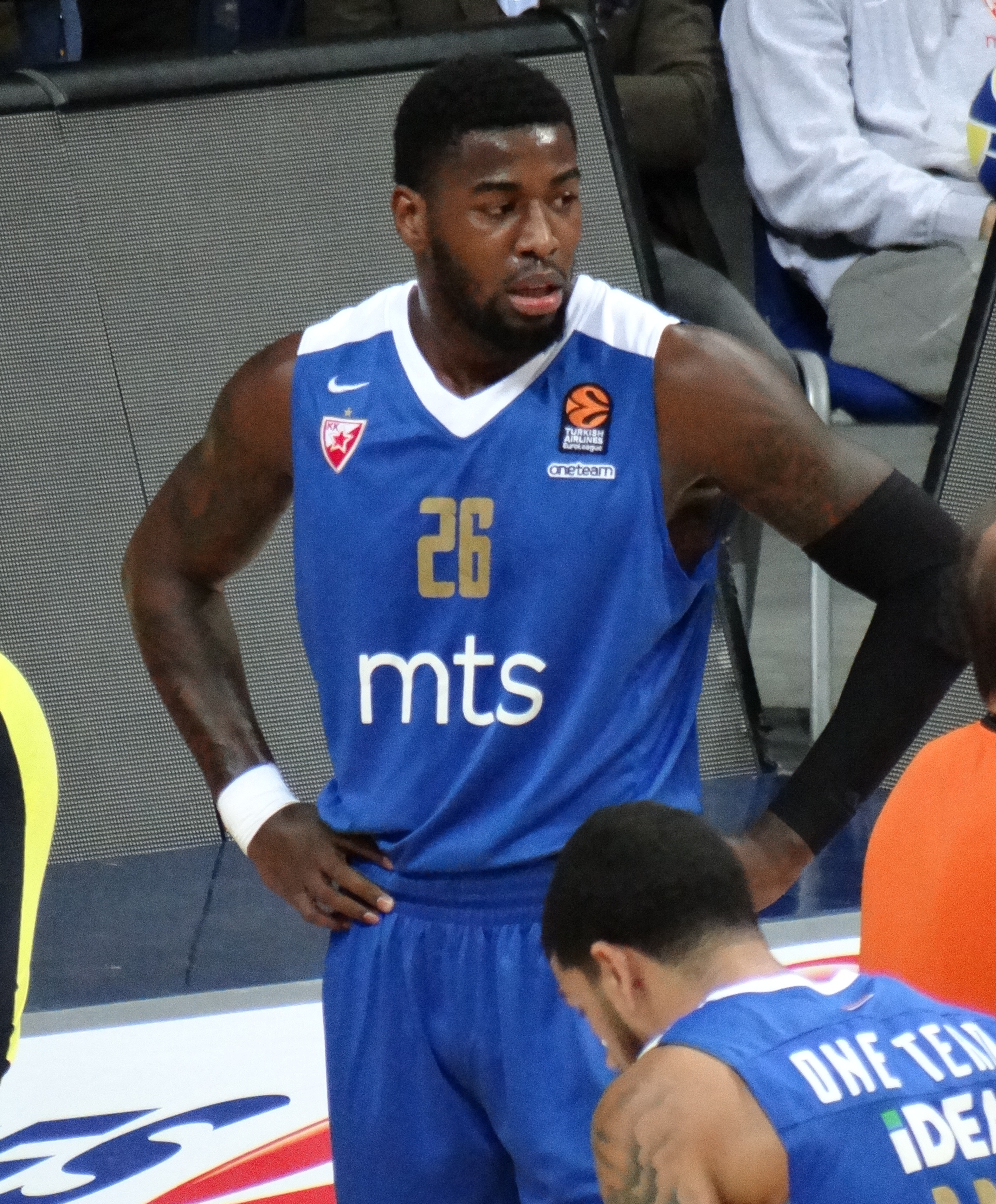 Mathias Lessort 26 KK Crvena zvezda 20171219